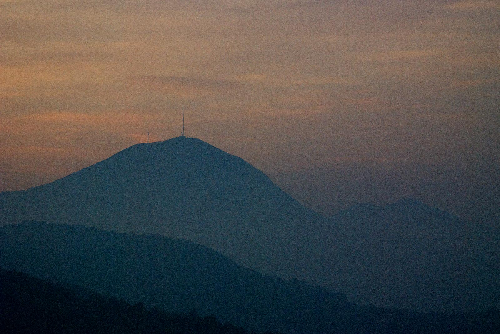 Mountains Ovcar and Kablar near Cacak, Serbia, shot from Pridvorica village